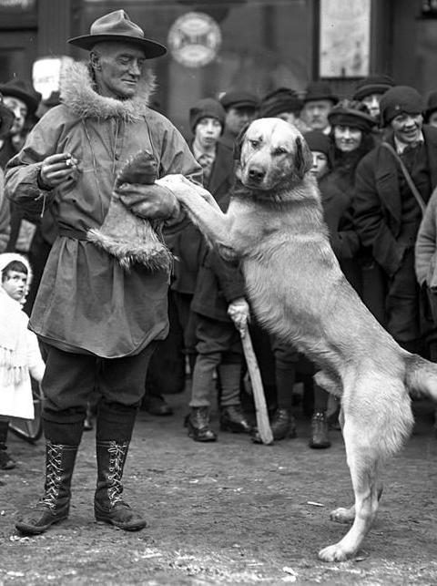 Arthur T. Walden and his dog, Chinook, with crowd at the 1922 Winter Carnival in Portland, Maine (cropped)